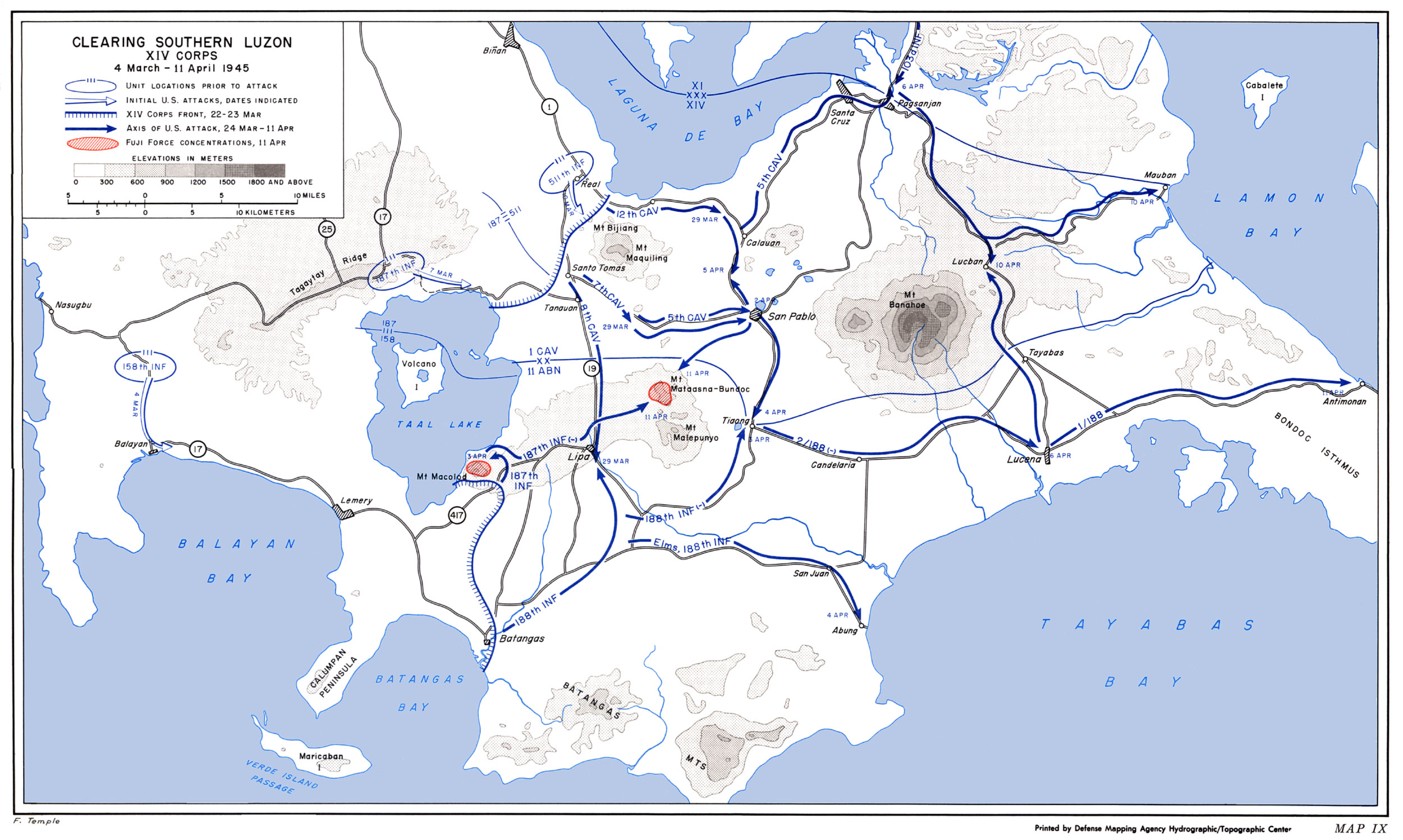 This map shows the campaigns of the XIV Corps of 11th Airborne Division, 158th Regiment Combat Team and 1st Cavalry Division in Southern Luzon, Philippines on March 4 - April 11, 1945. Tagalog: Ipinapakita ng mapang ito ang kampanya ng XIV Corps ng 11th Airborne Division, 158th Regiment Combat Team at 1st Cavalry Division sa Timog Luzon, Pilipinas noong Marso 4 - Abril 11, 1945.